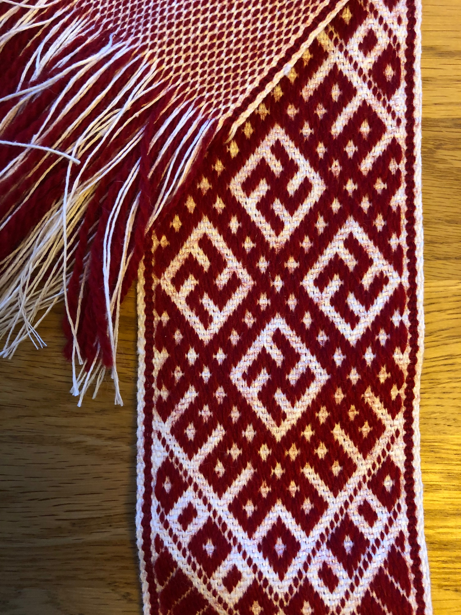 Latvian ethnographic belt from Lielvārde. Part with four elements of swastika.